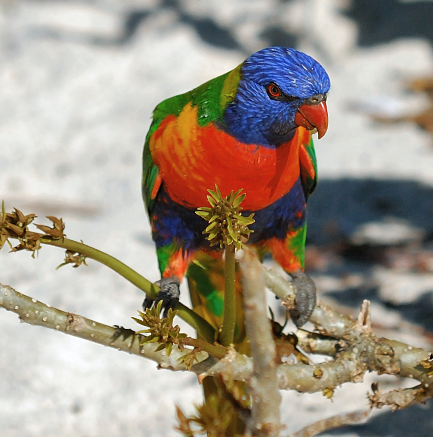 Rainbow Lorikeet Trichoglossus moluccanus at Nelson Bay, NSW, Australia.